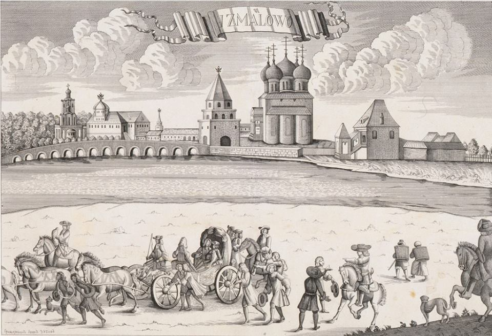 1720s view of Izmaylovo Court from south-east.